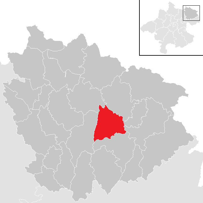 district Freistadt